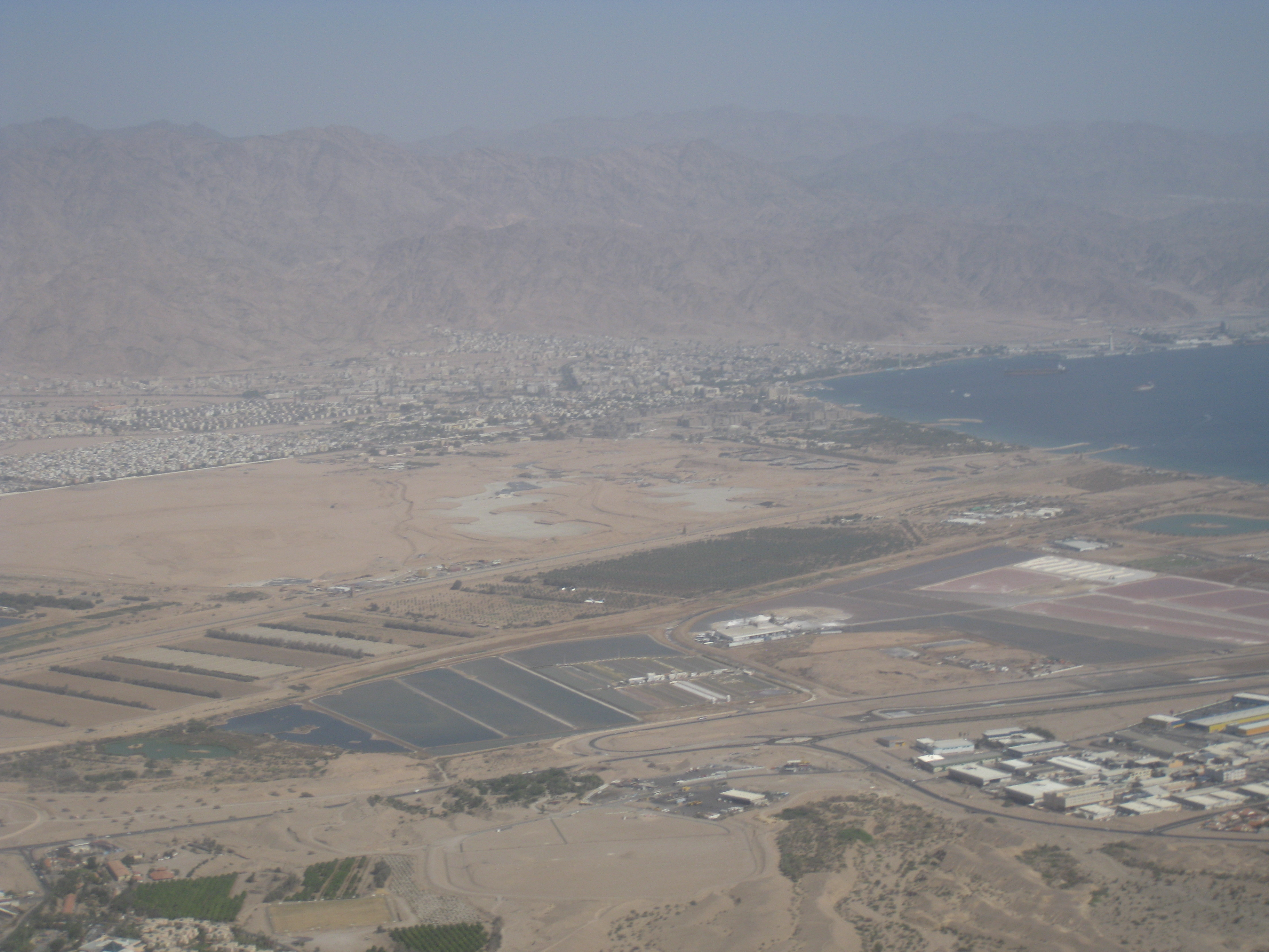 Aerial photographs of Eilat